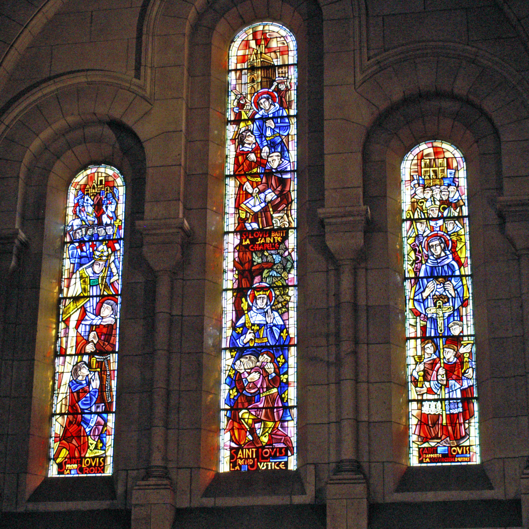 Basilica of the Sacré Cœur - Stained glass windows depicting the devotion of St Louis, King of France